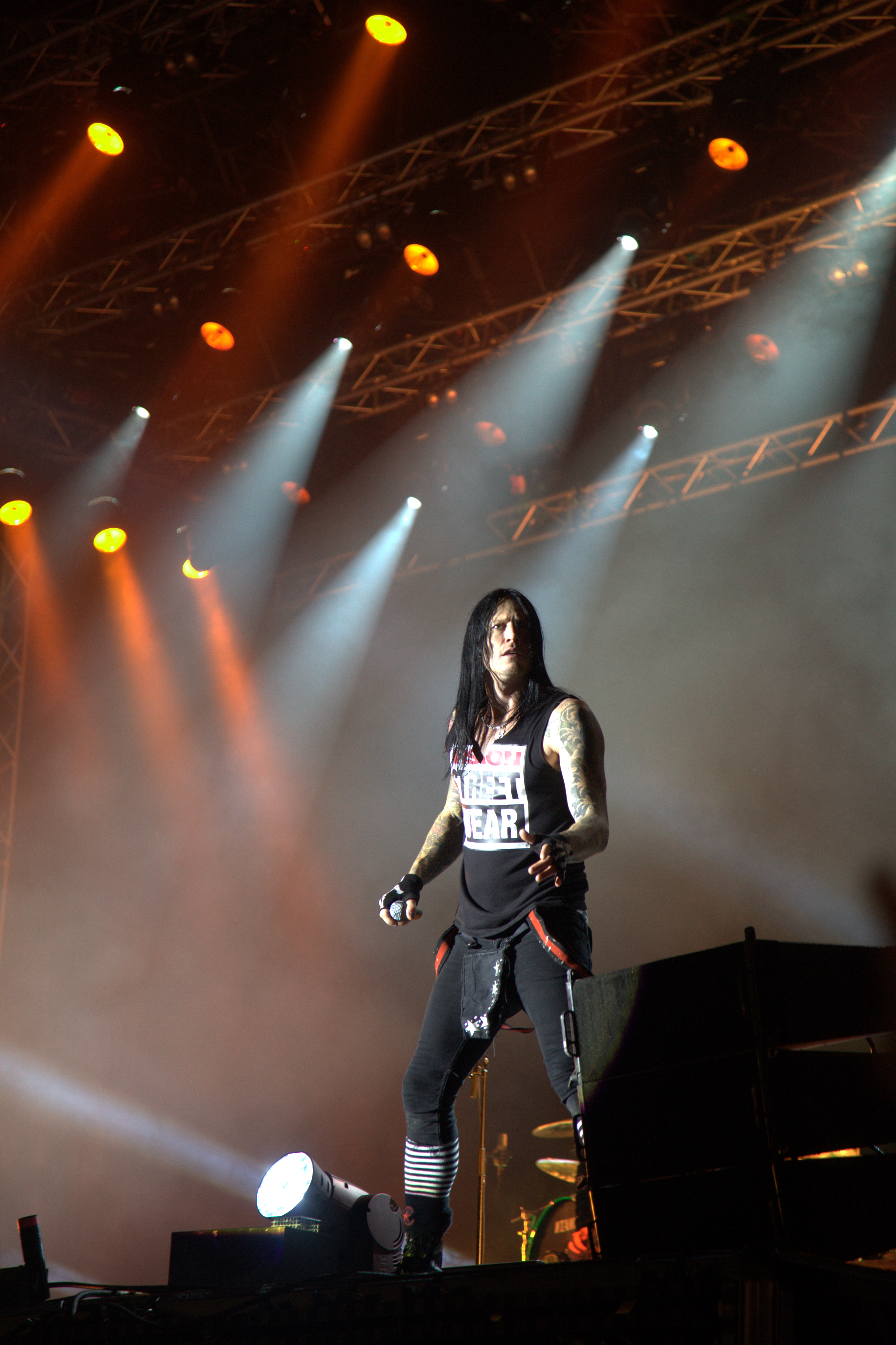 Hardcore superstar - Göteborg - 2010-08-11